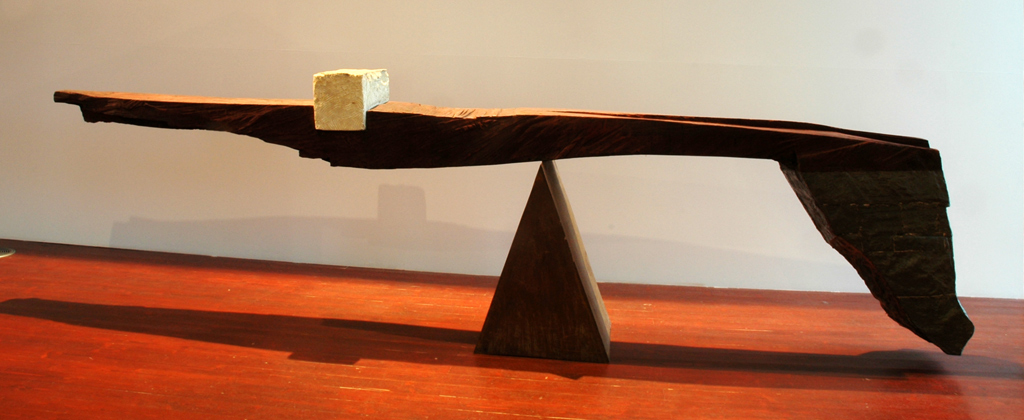 Sculpture by Jan Koblasa, Balance I, wood, stone, steel (1972)